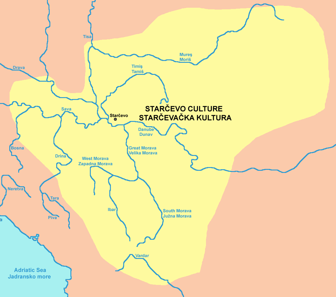 Neolithic Starčevo culture (5300-4400 BC).